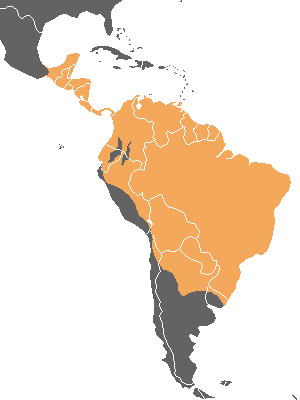 Range map of the King Vulture where orange indicates presence. Includes national borders.